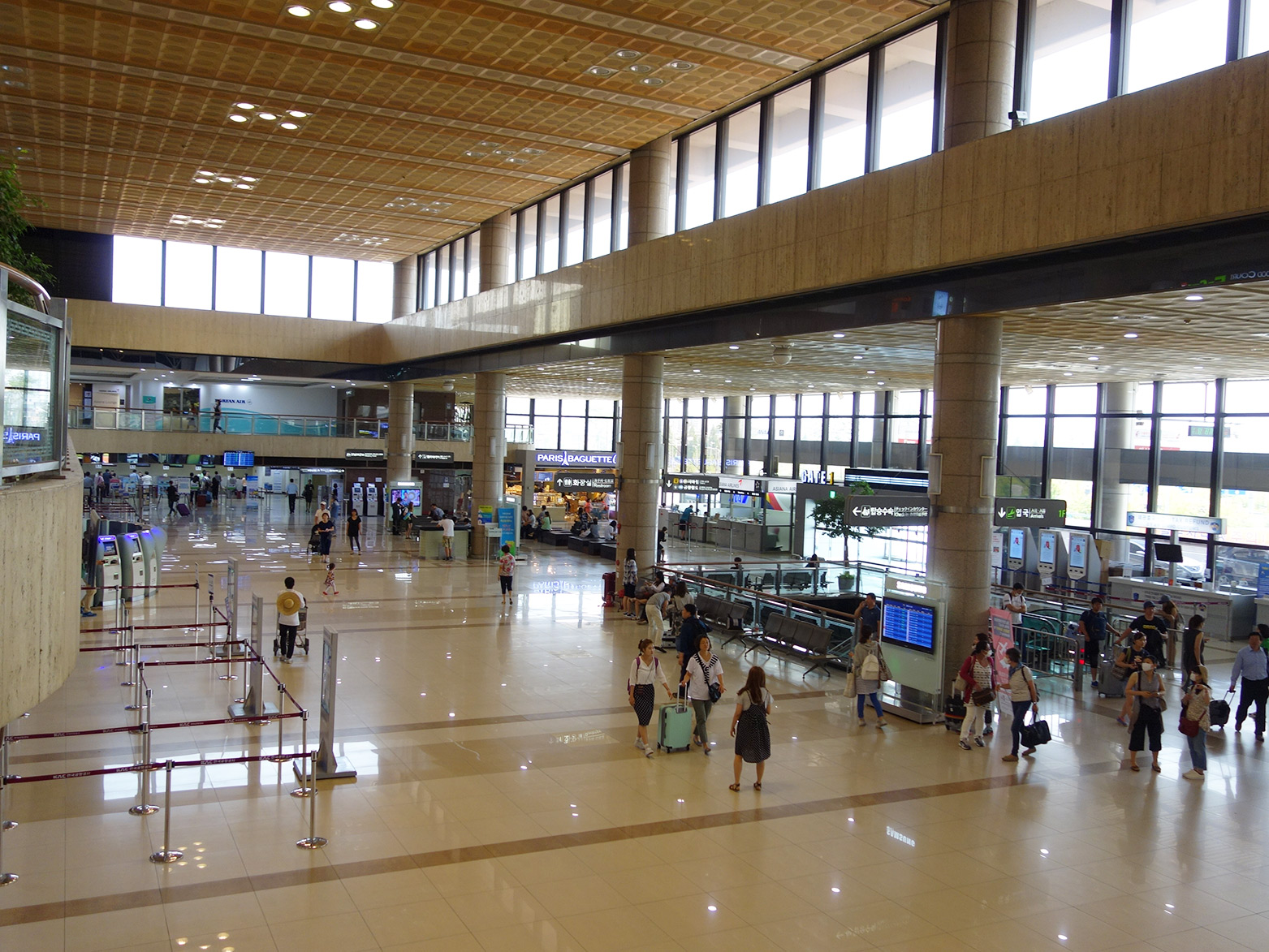 International Terminal at Gimpo Airport, Seoul, South Korea